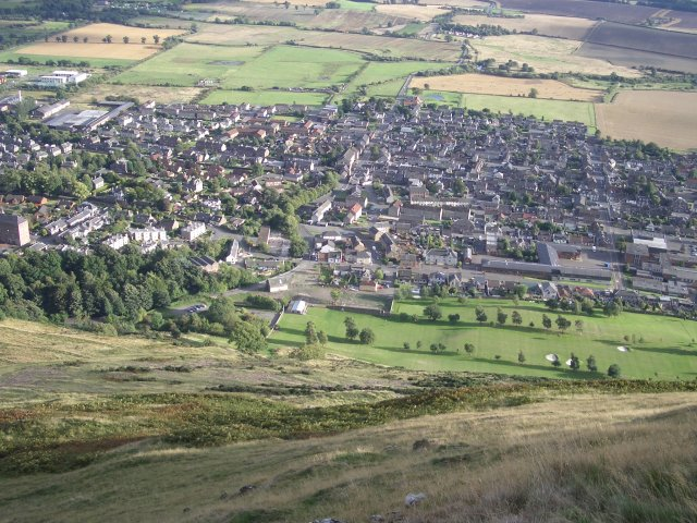 Alva. Good view of the village of Alva from a descent of Wee Torry.